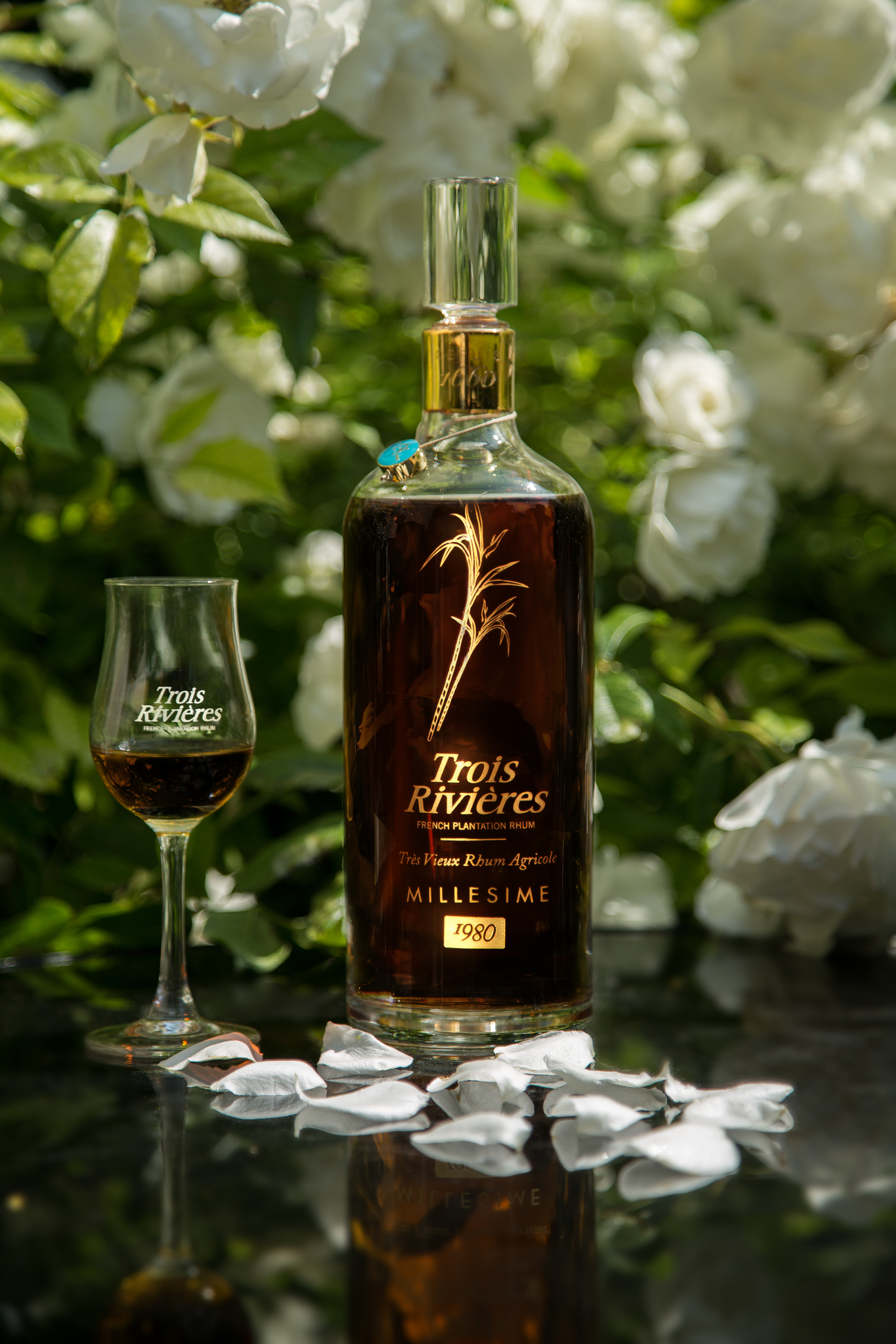 Trois Rivières - Millésime 1980 - Carafe Baccarat